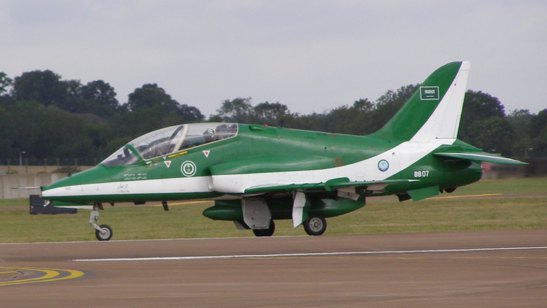 Royal Saudi Air Force British Aerospace Hawk ready for departure from RAF Fairford in England following the Royal International Air Tattoo 2011.